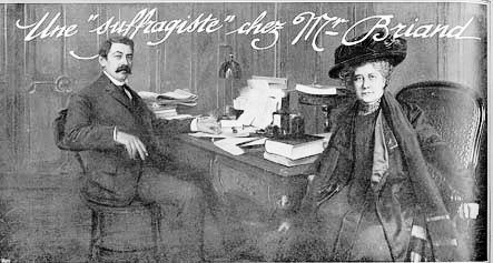 Jeanne Schmal chez Aristide Briand en 1909